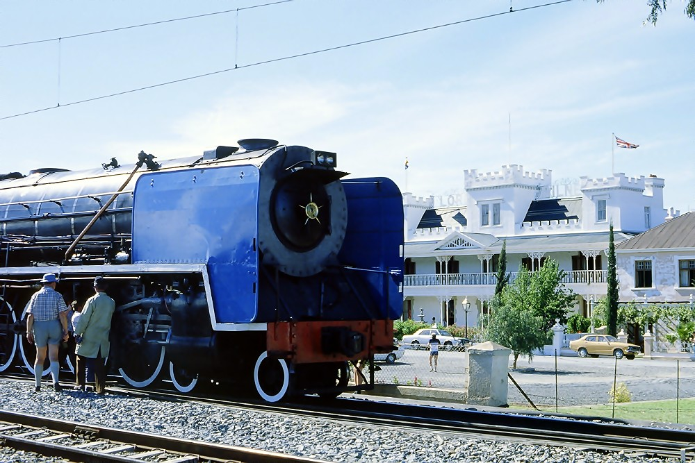 The Lord Milner Hotel at Matjiesfontein, South Africa. At the foreground a SAR class 15F steam locomotive no. 3031, taking Water